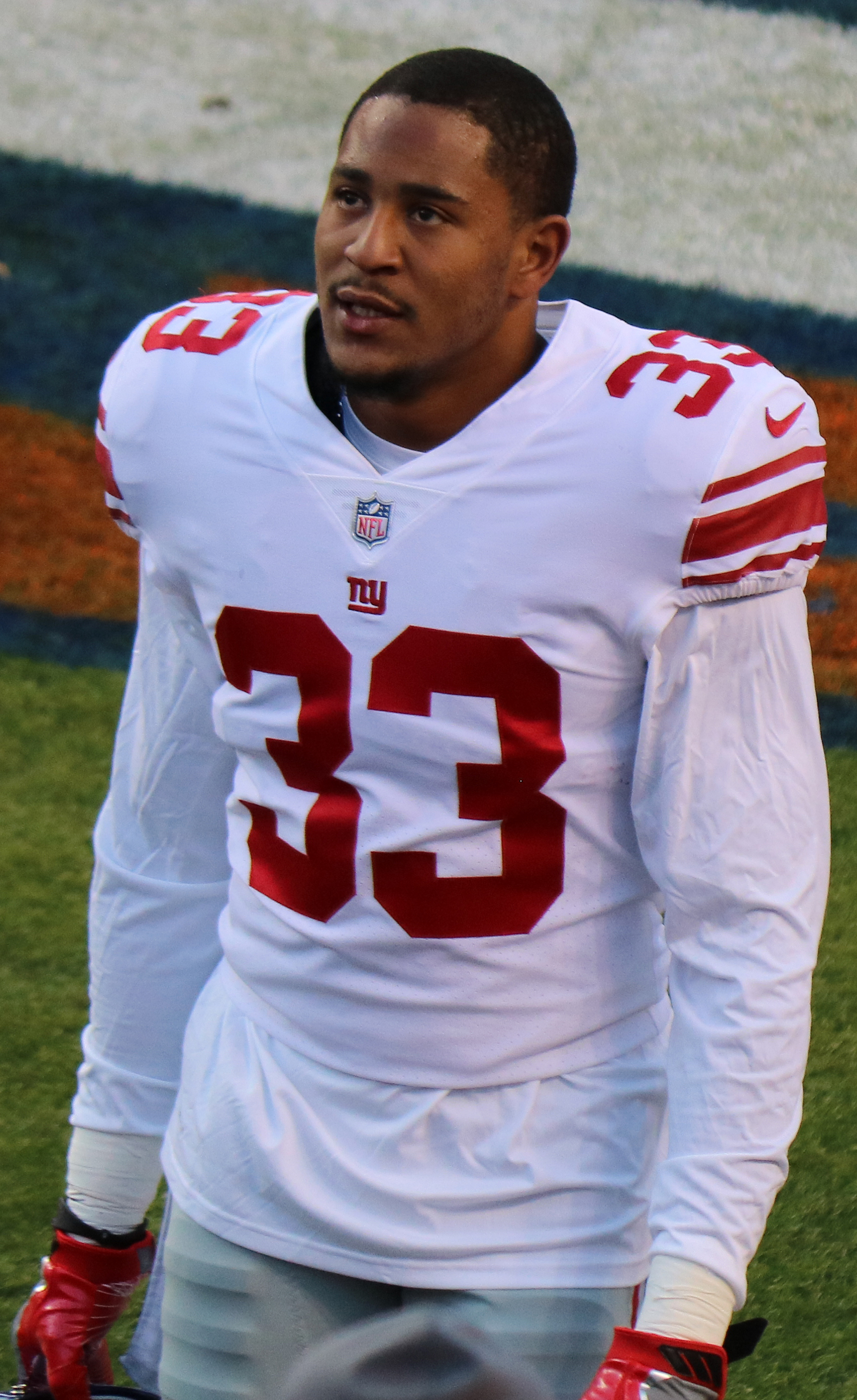 Andrew Adams, a player on the National Football League.